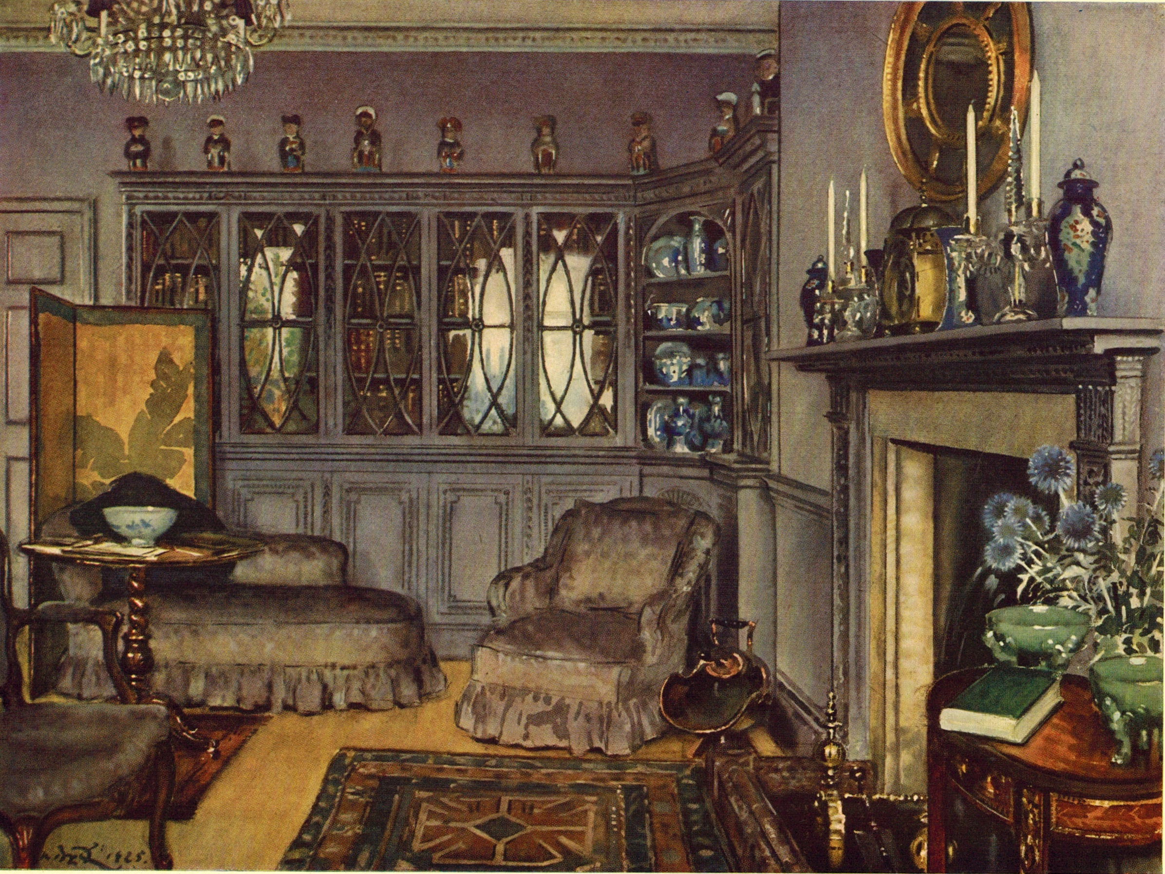 "A Grey Room" Painted by WBE Ranken in 1925 for Basil Ionides' COLOUR